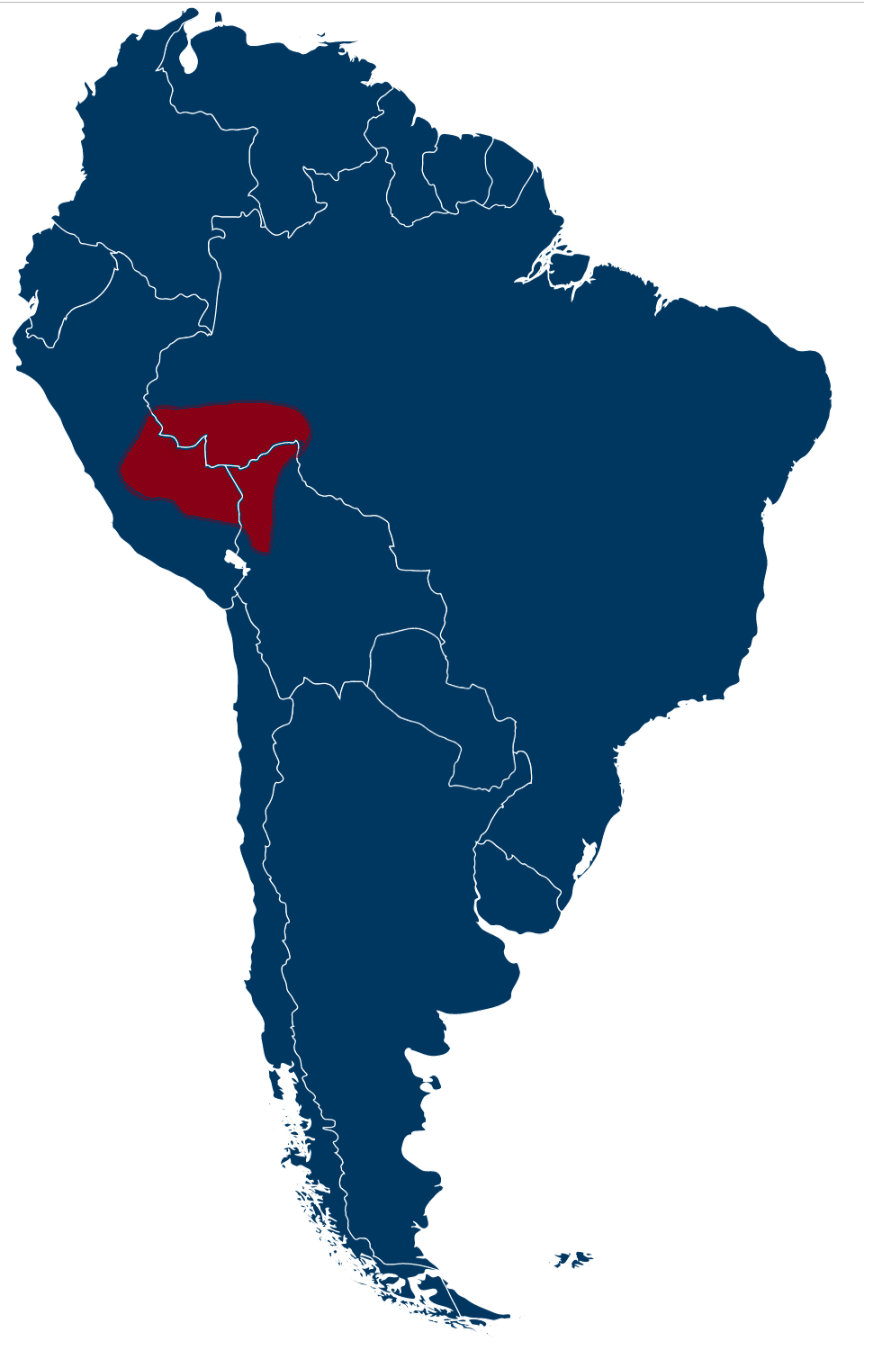 The approximate distribution range of the Pyrrhura rupicola. The natural habitat is being destroyed for agriculture and aquacultue.